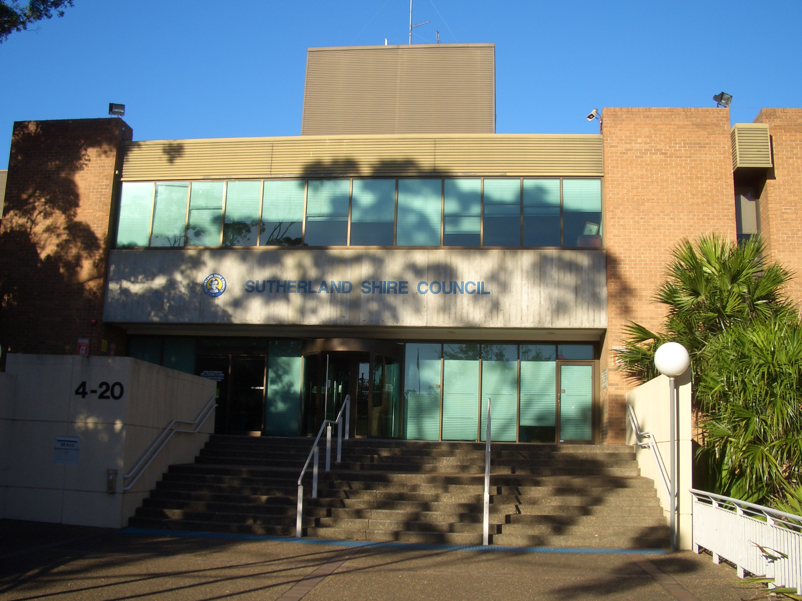 Sutherland_Shire_Council, Eton Street